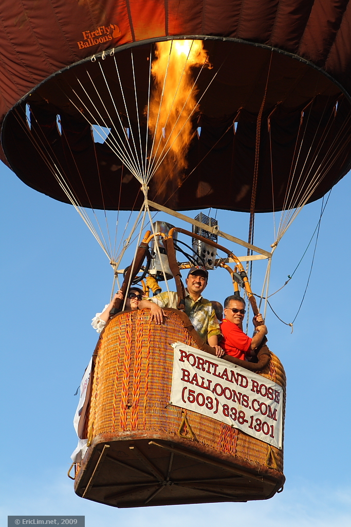 A pilot and two riders flying in a hot air balloon with the gas burner firing at the 1st Putrajaya Hot Air Balloon Fiesta 2009, Putrajaya, Malaysia